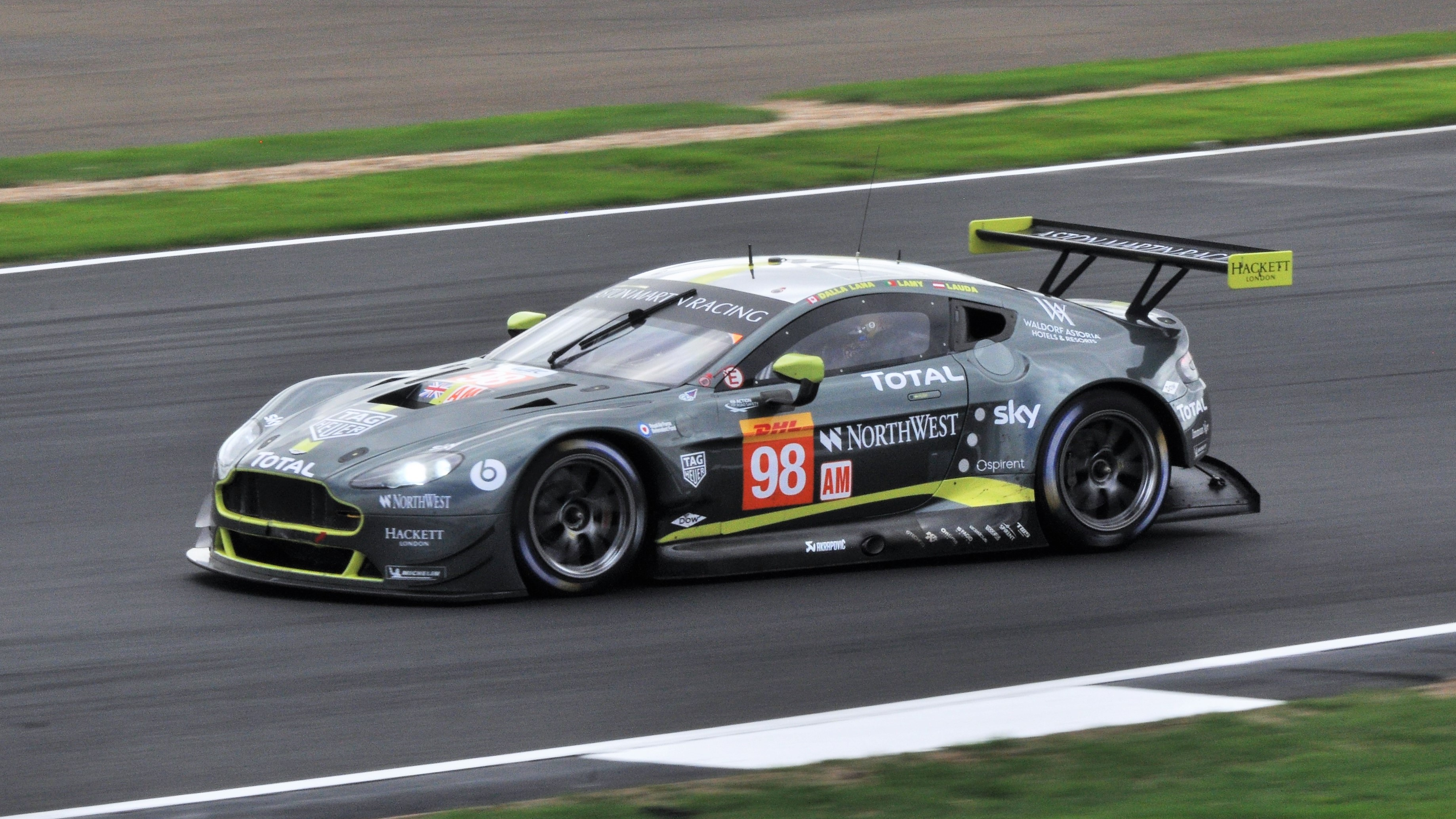 Austrian driver Mathias Lauda in the number 98 Aston Martin entry, enters Village corner during the 2018 6 Hours of Silverstone race. Lauda and his co-drivers, Canadian Paul Dalla Lana and Portuguese driver Pedro Lamy, finished just off the podium in 4th place in the LMGTE Am class.